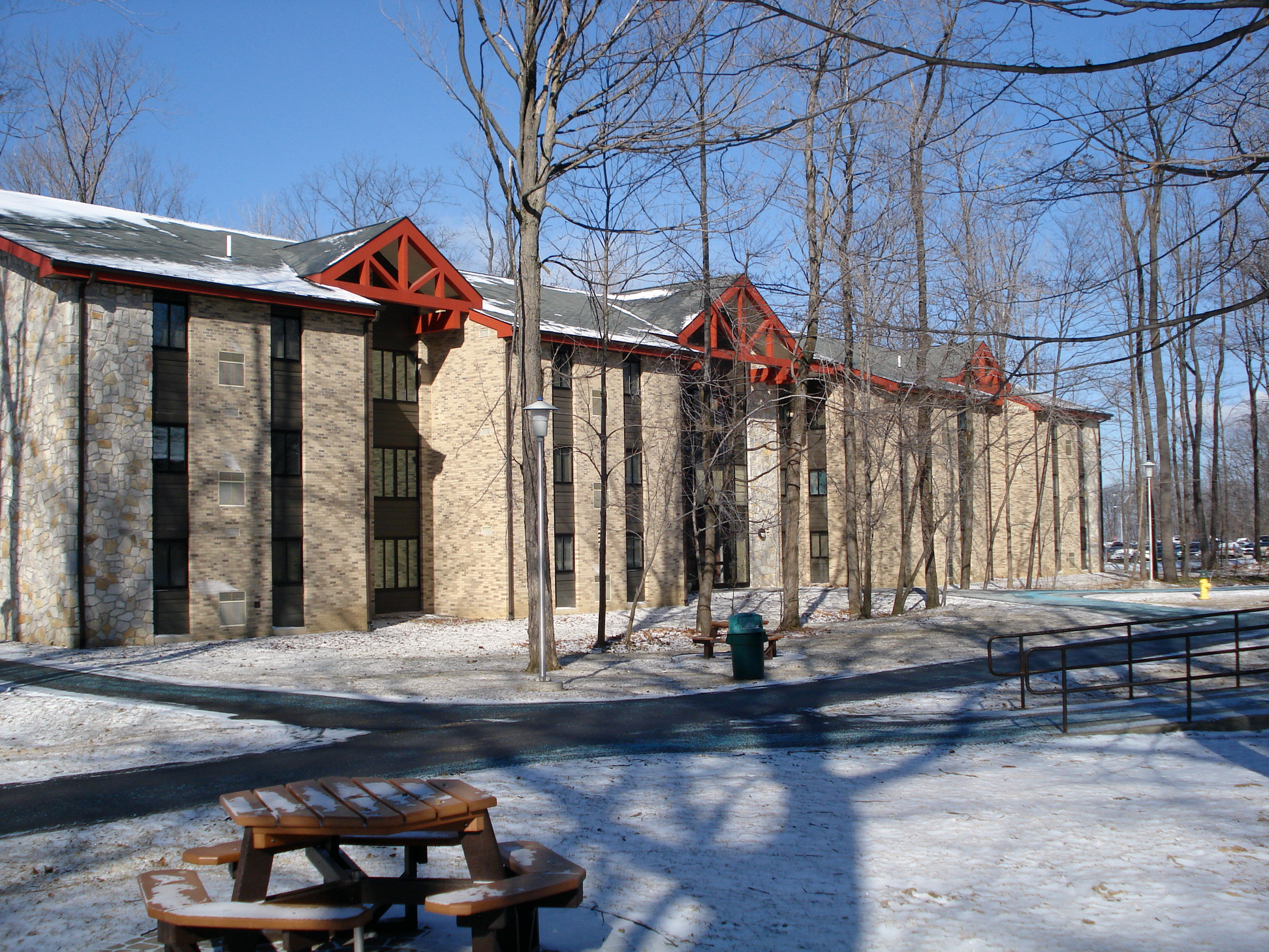 Willow Hall, a student residence at the University of Pittsburgh at Johnstown